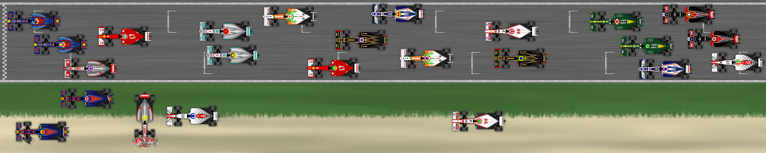 Race result of the 2011 Belgian Grand Prix in Spa